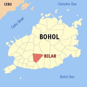 Map of Bohol showing the location of Bilar